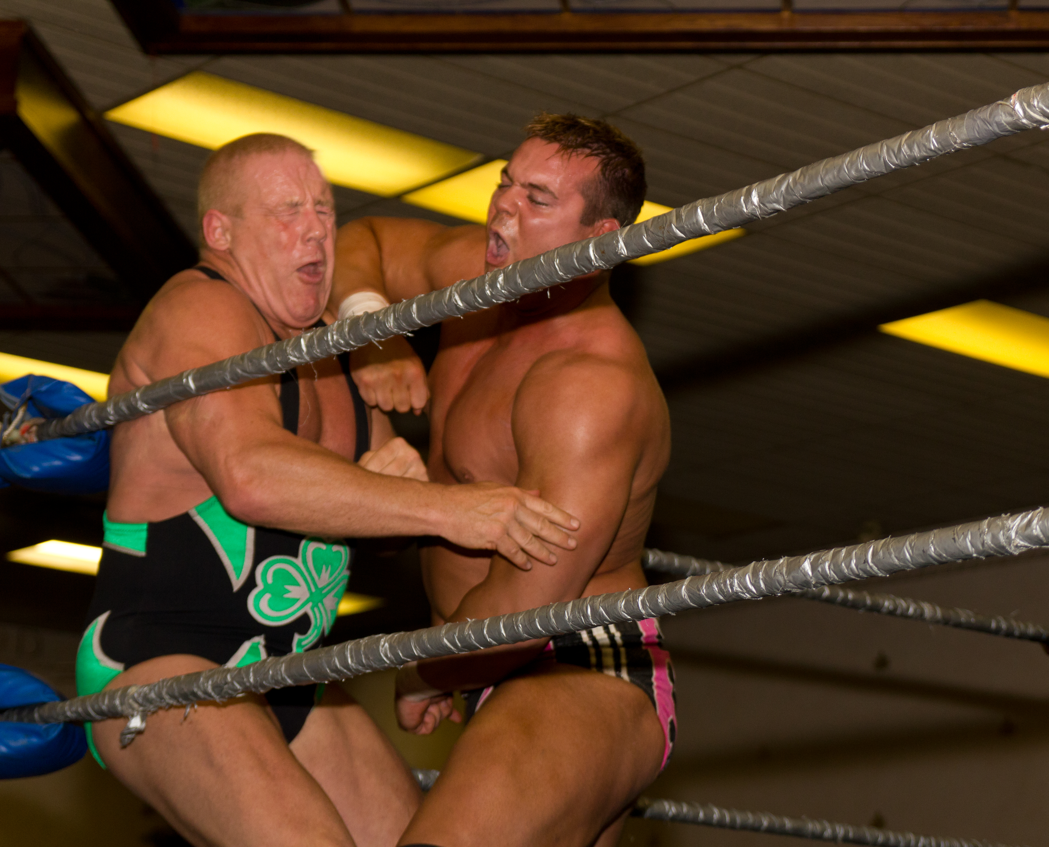 Harry Smith (right) strikes Fit Finlay with a forearm smash, Stampede Wrestling, November 6 2011.